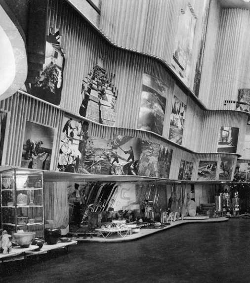 World Fair 1939 in New York - Finland's section planned by Aino and Alvar Aalto